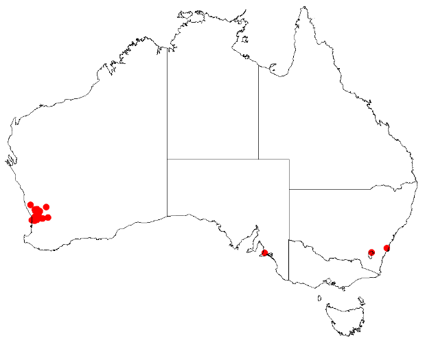 Hakea myrtoides Occurrence data downloaded from AVH on 22 November 2018 using